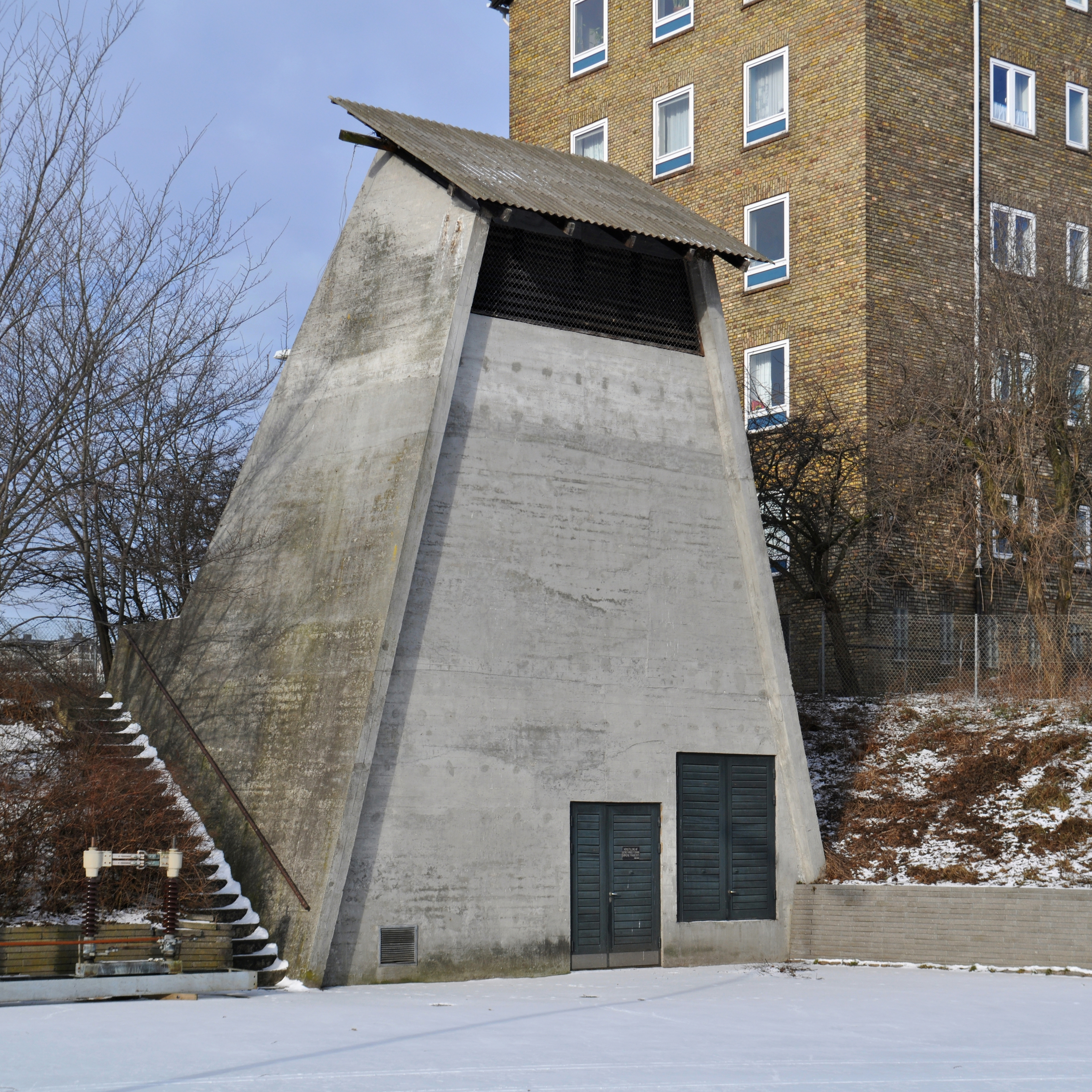 gas pressure regulator building at bellahøj transformer station, 1967-1968. architect: hans chr. hansen, 1901-1978, working for the copenhagen municipal architects department under f.c.lund, 1896-1984.